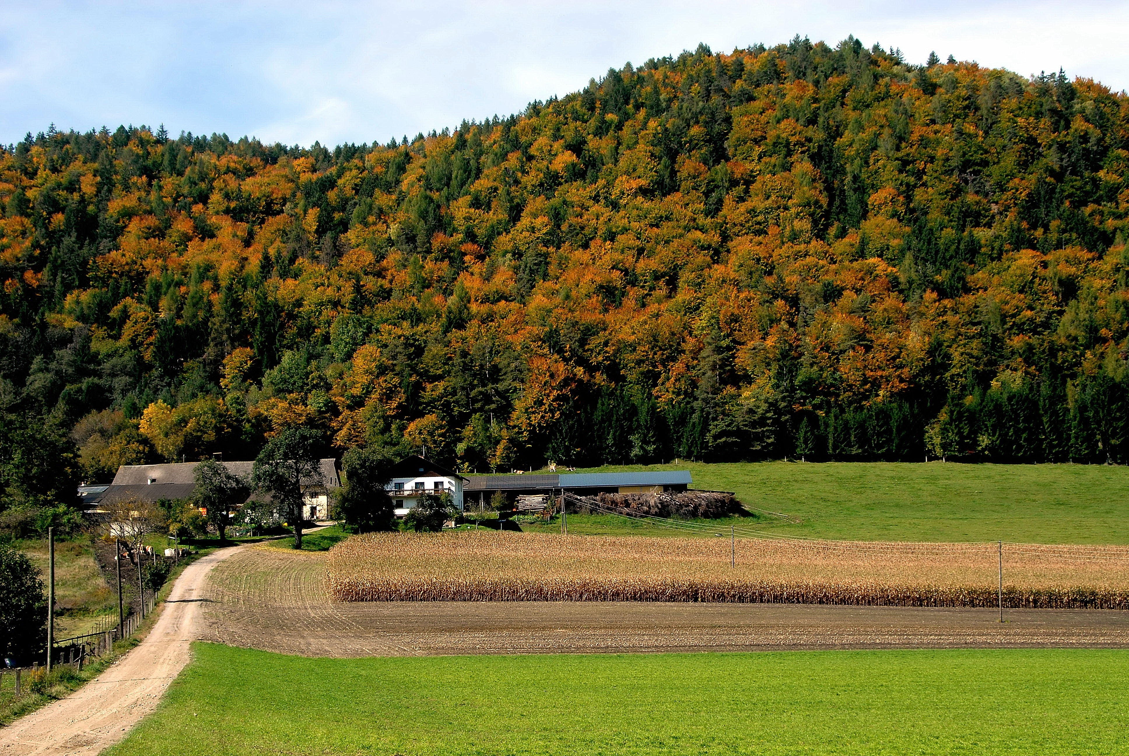 Grange with autumnal landscape and maize-field at Sabuatach, market town Grafenstein, district Klagenfurt Land, Carinthia, Austria, European Union